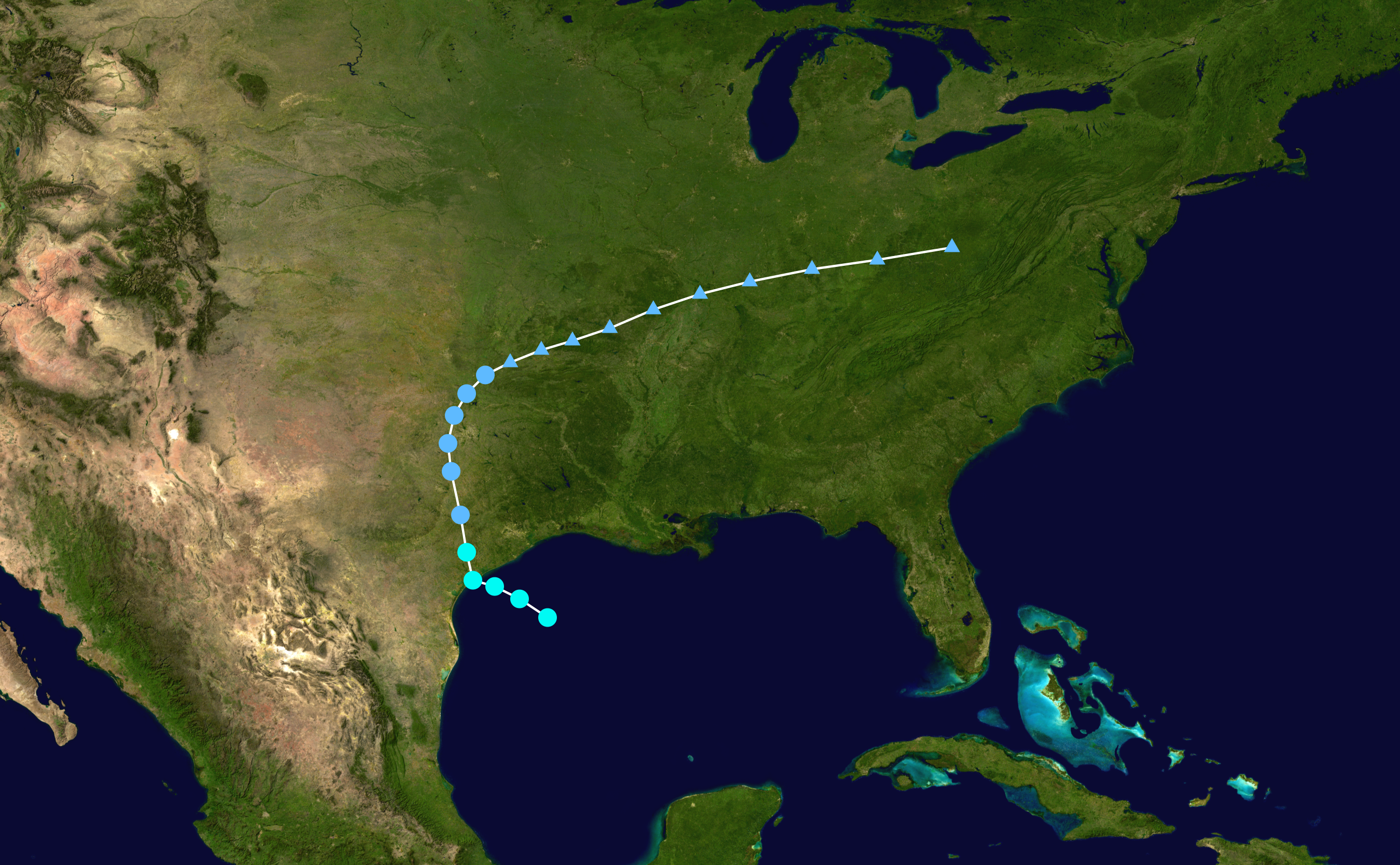 Track map of Tropical Storm Bill of the 2015 Atlantic hurricane season. The points show the location of the storm at 6-hour intervals. The colour represents the storm's maximum sustained wind speeds as classified in the Saffir–Simpson scale (see below), and the shape of the data points represent the nature of the storm, according to the legend below. Saffir–Simpson scale Tropical depression≤38 mph≤62 km/h Category 3111–129 mph178–208 km/h Tropical storm39–73 mph63–118 km/h Category 4130–156 mph209–251 km/h Category 174–95 mph119–153 km/h Category 5≥157 mph≥252 km/h Category 296–110 mph154–177 km/h Unknown Storm type Tropical cyclone Subtropical cyclone Extratropical cyclone / Remnant low / Tropical disturbance / Monsoon depression